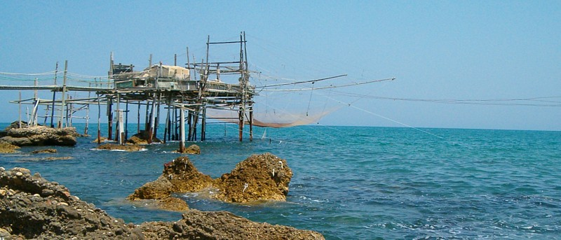 Trabocchio near Torino di Sangro Picture taken by user Idéfix , july 2005